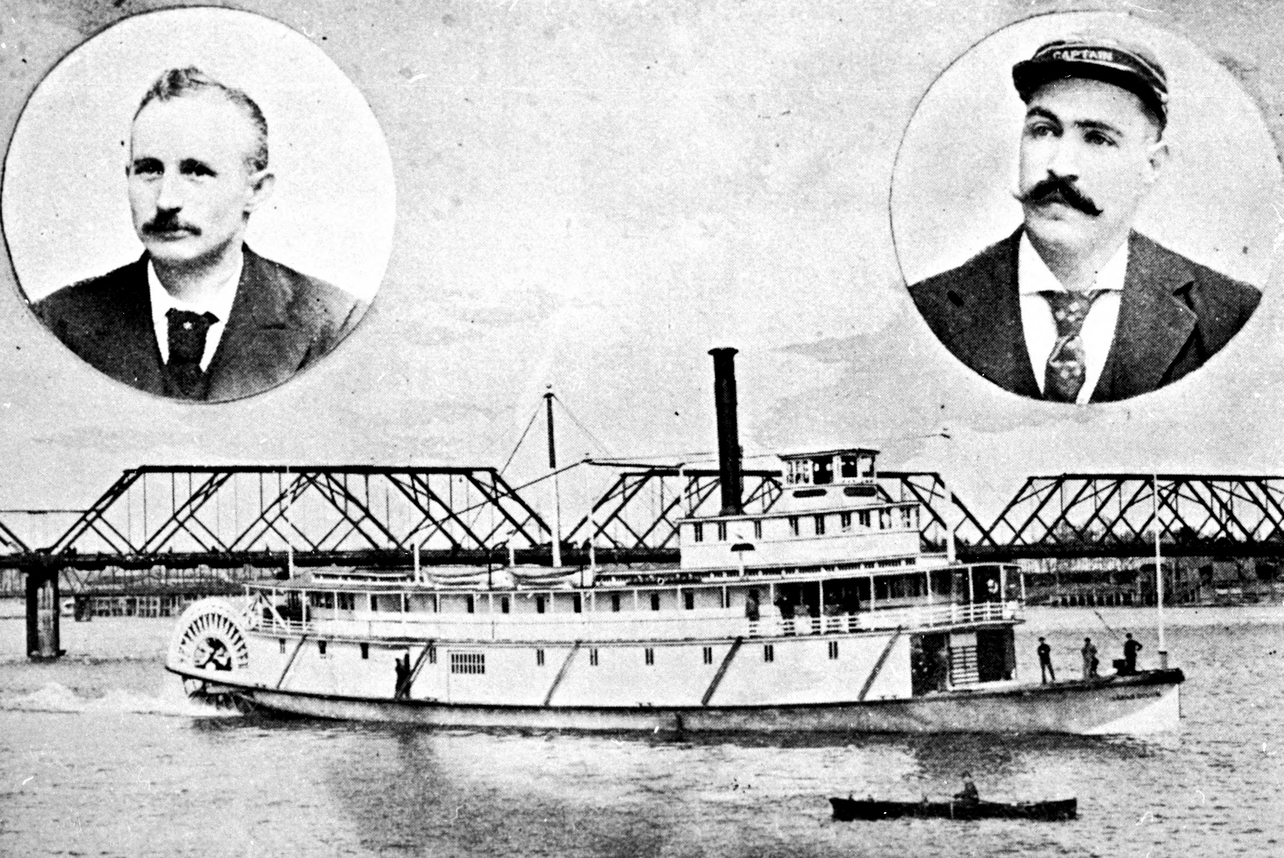 Photograph of sternwheeler Sarah Dixon and two of her officers, Henry E. Pape, chief engineer, on left, and George M. Shaver, captain, on right.